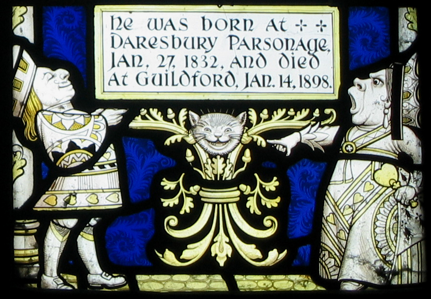 Photograph taken by me 7 April 2007.